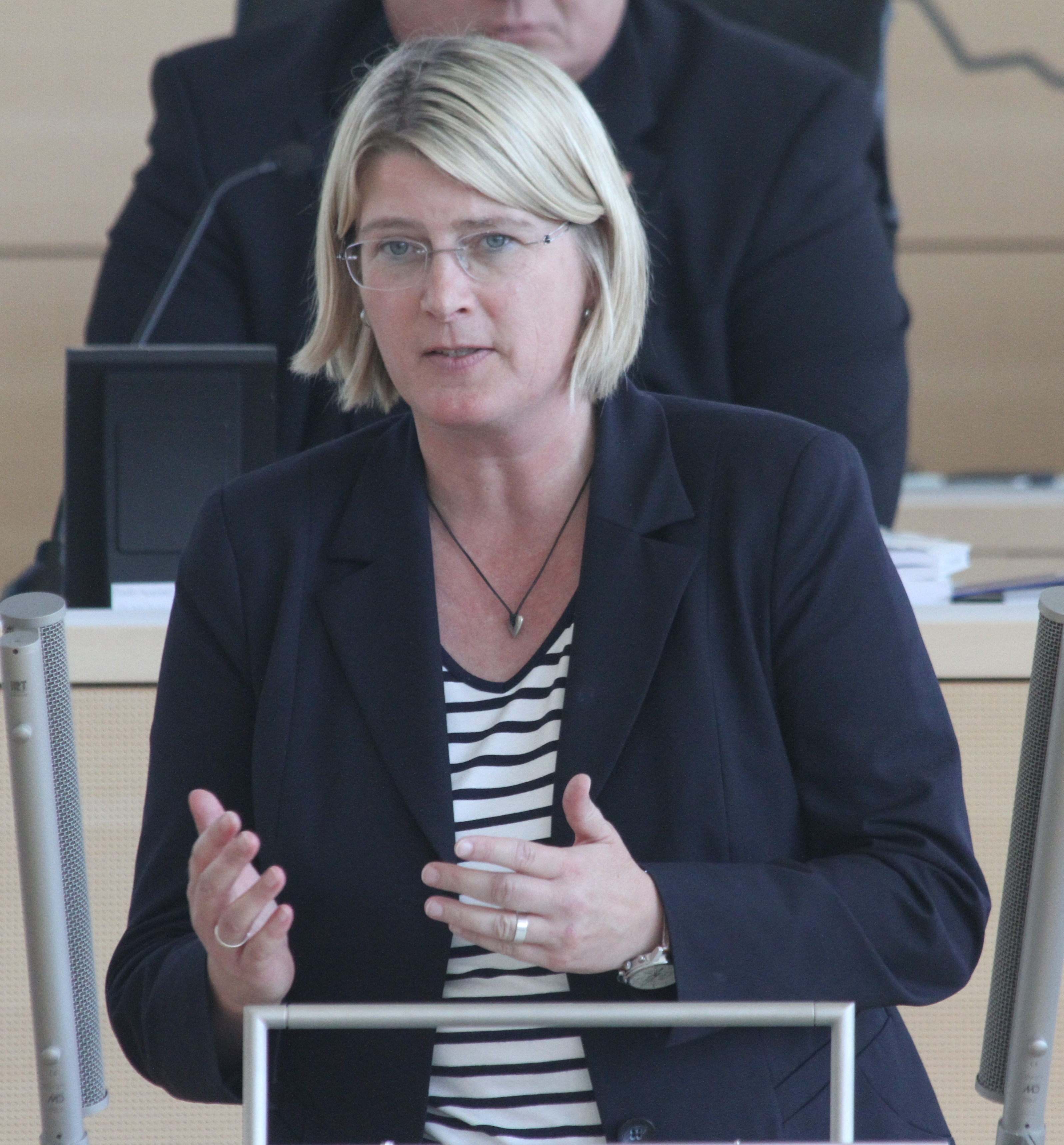 Marret Bohn am Redepult